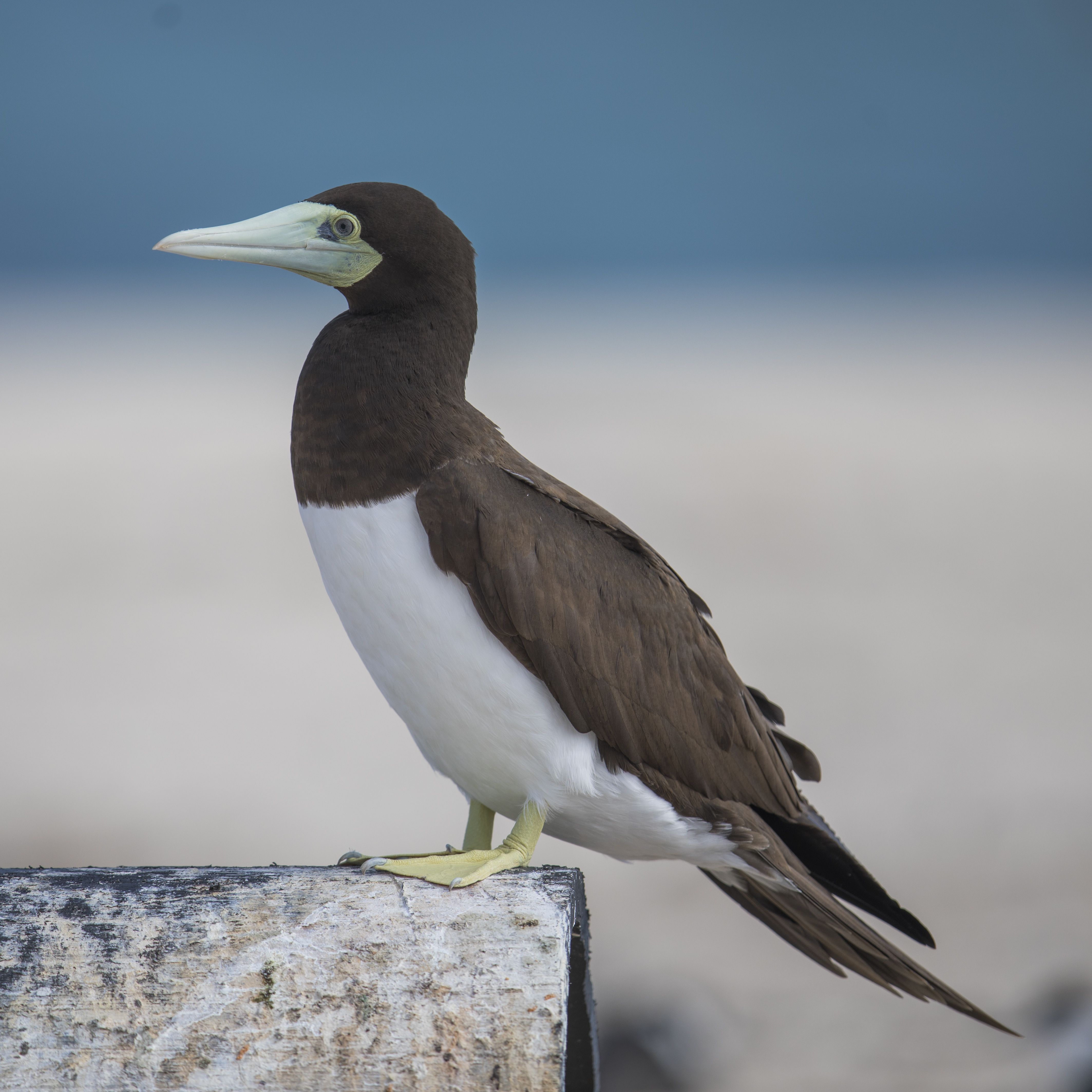 Adult female Brown booby at Green Island, Queensland